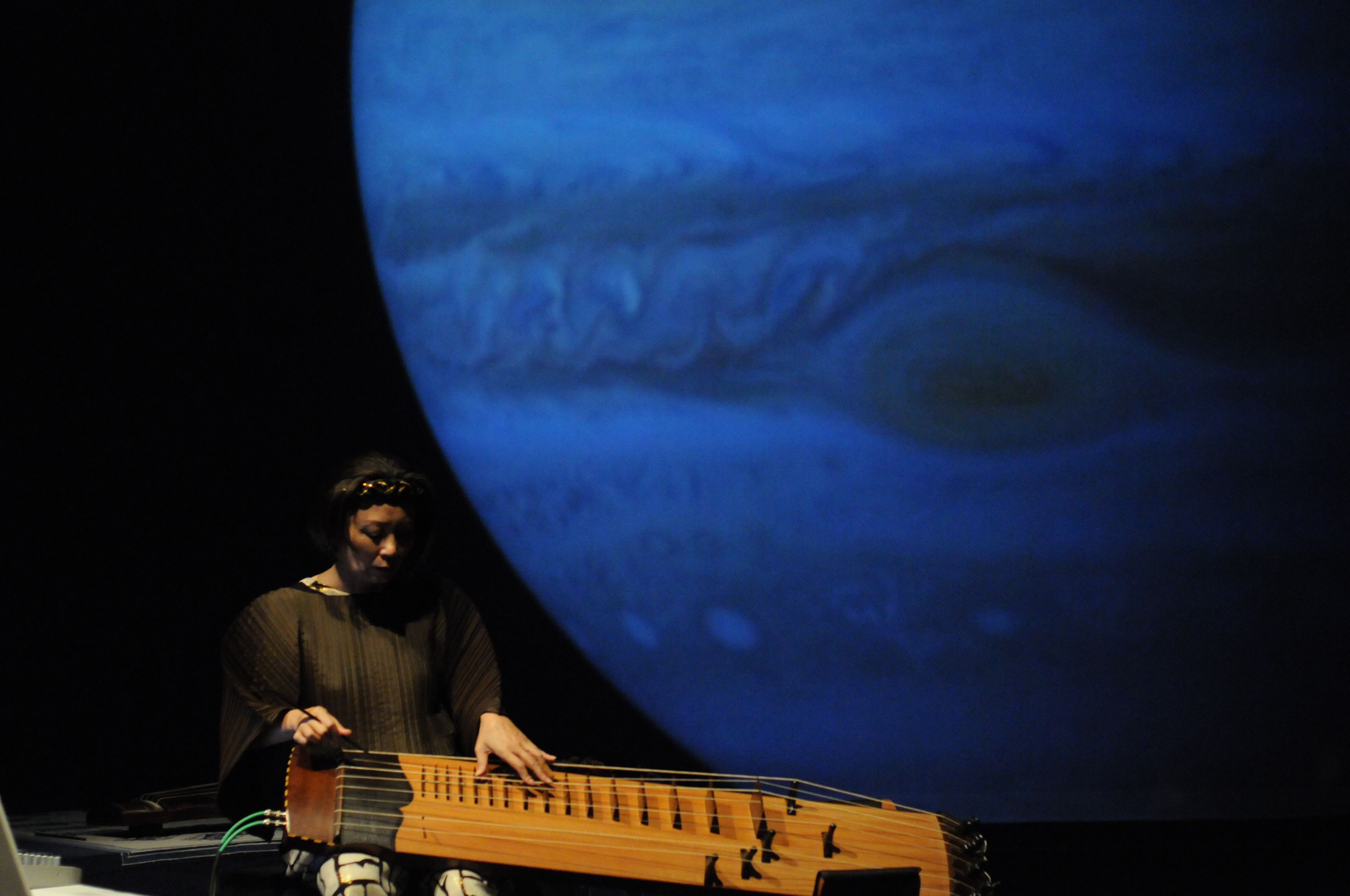 Jin Hi Kim with electric komungo, a unique instrument to her.